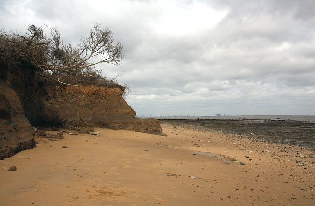 Uneven cliff erosion This cliff at The Naze is eroding irregularly, due to the difference between the harder London Clay at the foot of the cliff and the softer Red Crag above.